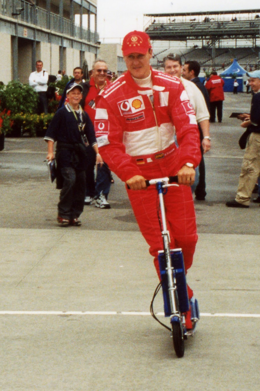 Michael Schumacher riding a scooter, Indianapolis, 2002